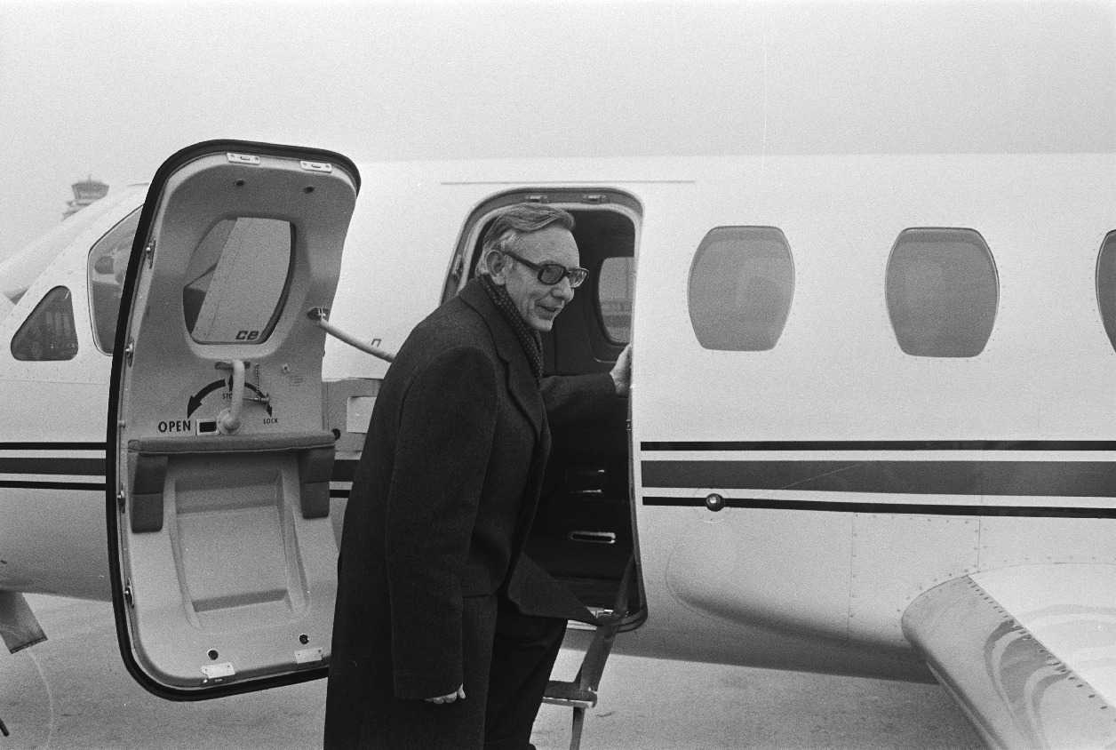 Minister Van der Stoel boards a Cessna Citation jet aircraft at Schiphol airport to travel to China and Japan